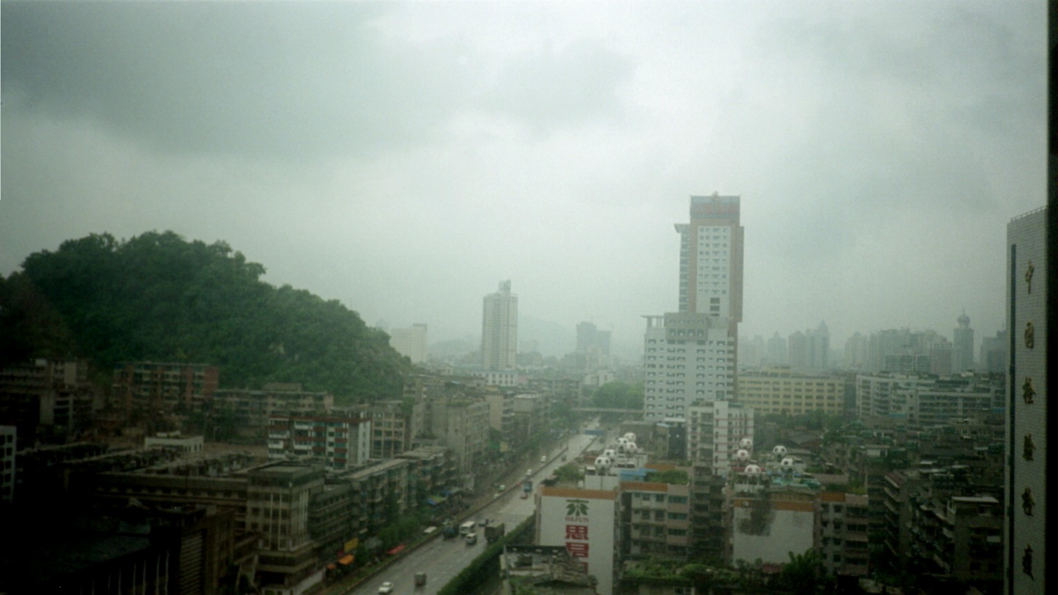 Guiyang, Guizhou, China as seen from Miracle Hotel, 1 Beijing Lu